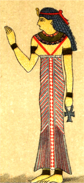 Egyptian queen